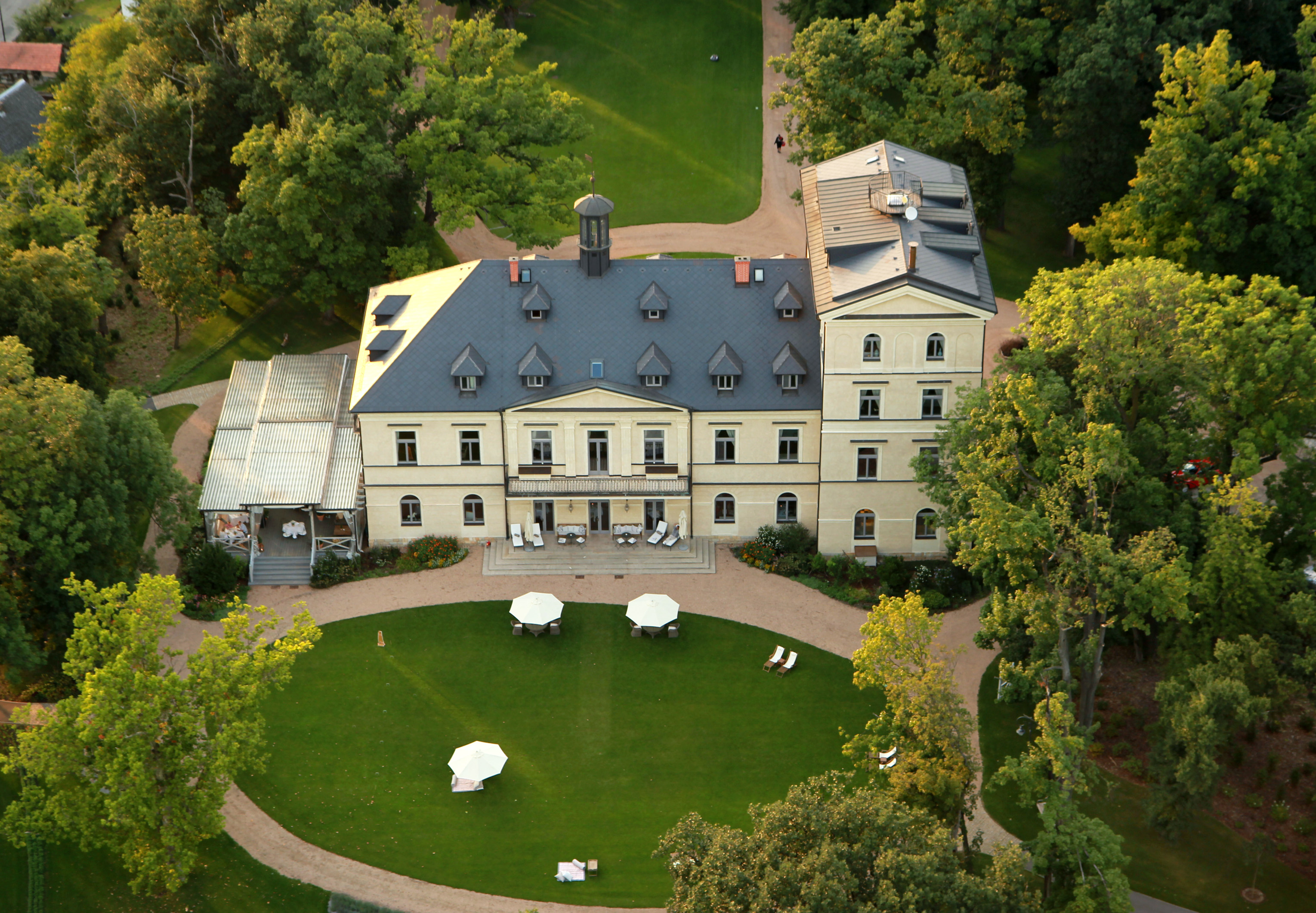 Mcely Castle in Mcely village, Czech Republic